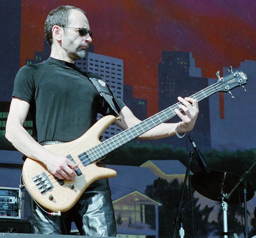 Mel Schacher of Grand Funk Railroad performing at Gulfstream Park in Hallendale, FL.